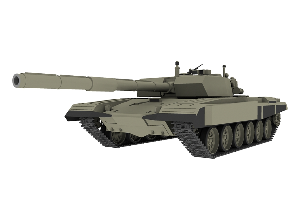 Croatian M-95 Tank 3D Model